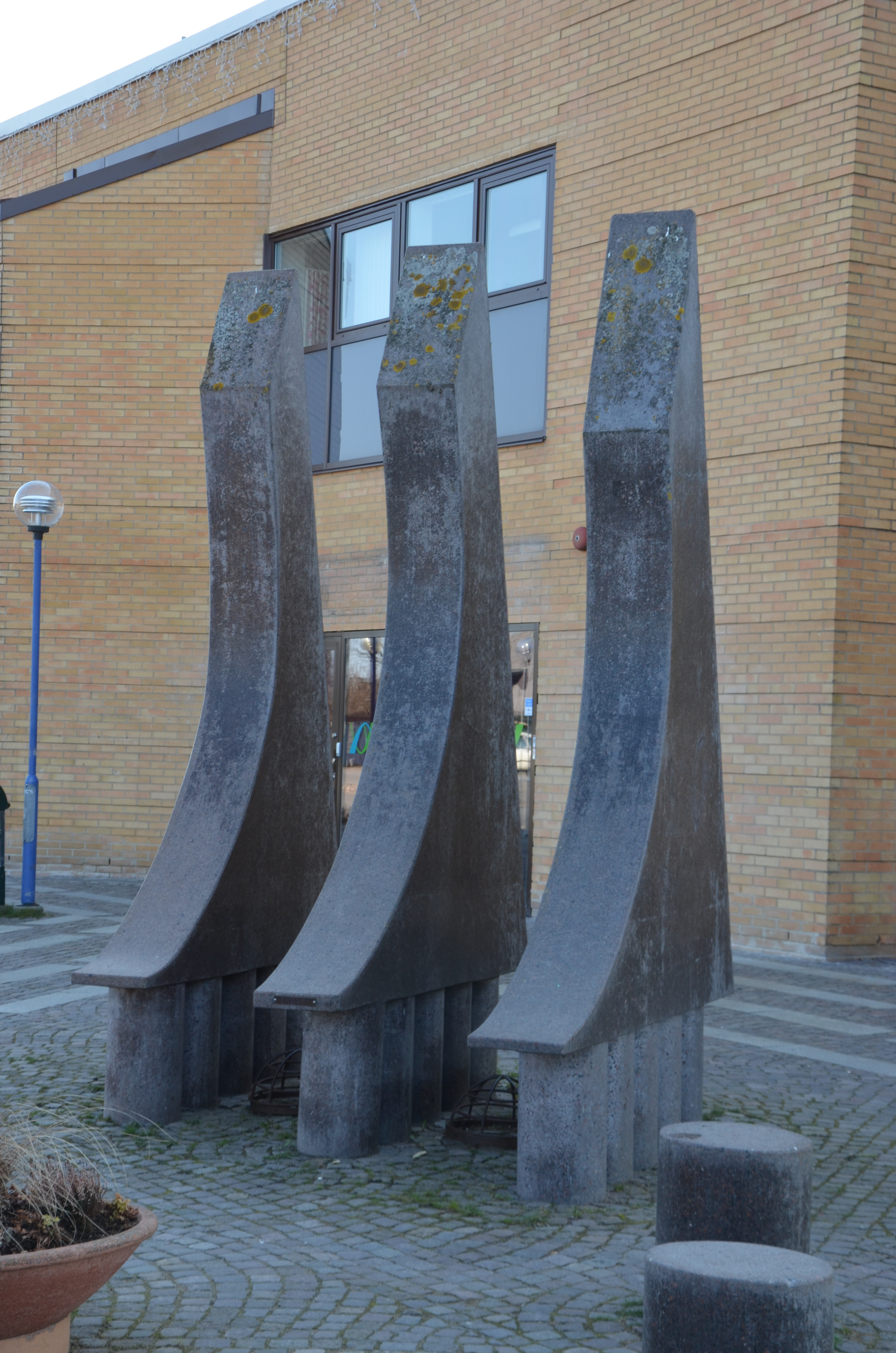 Tre segel med solen av Maha Mustafa, vid Centrum i Bjärred